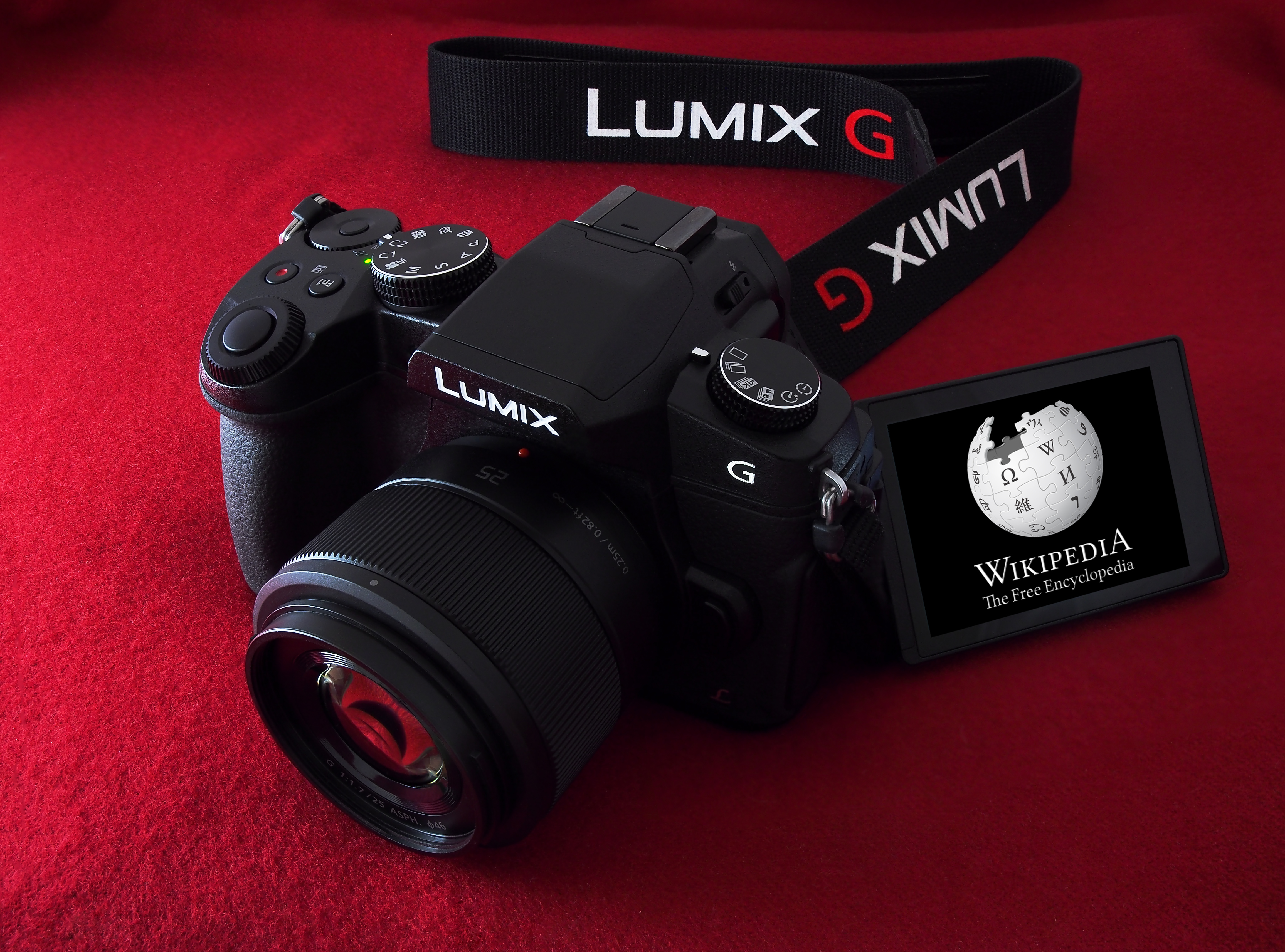 Panasonic Lumix DMC-G85/G80 This photograph was taken with an Olympus E-P5